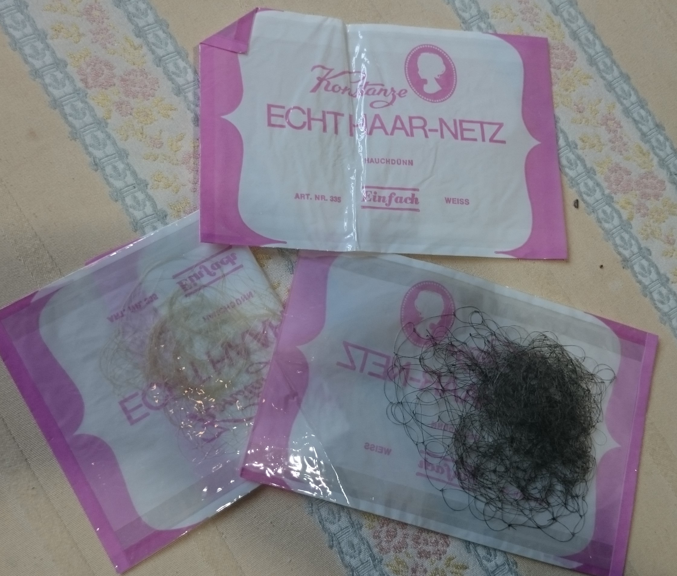 Hairnet, made itself of hair. Brand "Konstanze", delivered in small plastic bags.